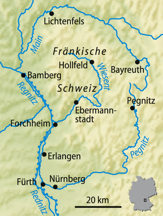 Franconian Switzerland between Nürnberg, Forchheim, Bamberg and Bayreuth (Franconia)